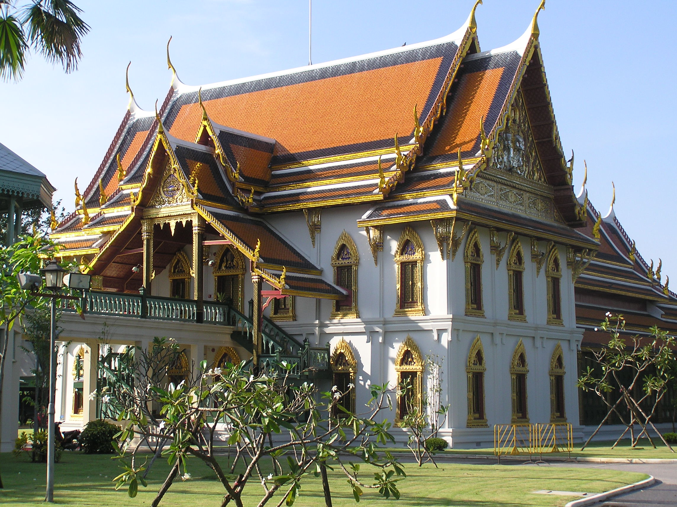 Samakkhi Mukamat Vajariromaya Residence, one of the residence in Sanam Chan Palace, Nakhon Pathom provonce พระที่นั่งสามัคคีมุขมาตย์วัชรีรมยา ใน พระราชวังสนามจันทร์